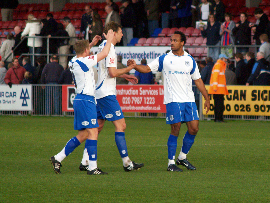 Bury FC footballers (left to right) Glynn Hurst, Ben Futcher and Chris O'Grady after the Dagenham & Redbridge vs. Bury game at the London Borough of Barking and Dagenham Stadium, home of Dagenham & Redbridge FC. Saturday18th October 2008